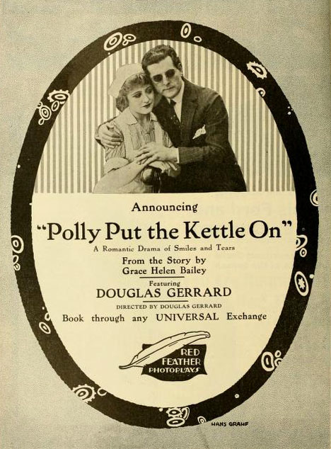 Advertisement in Moving Picture World